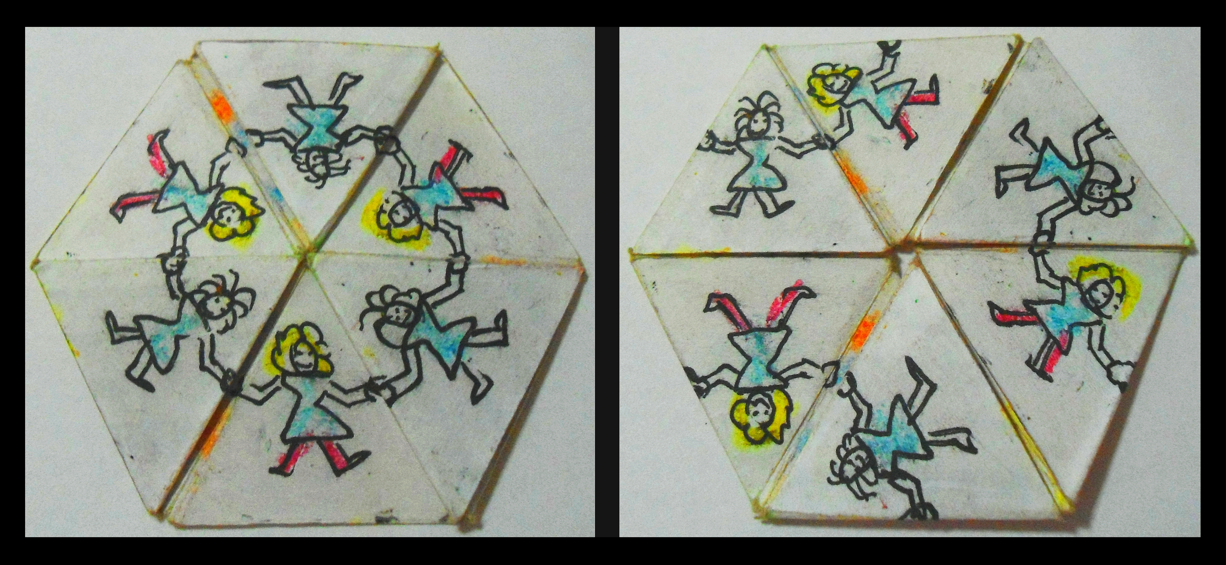 Hexahexaflexagon showing two sides